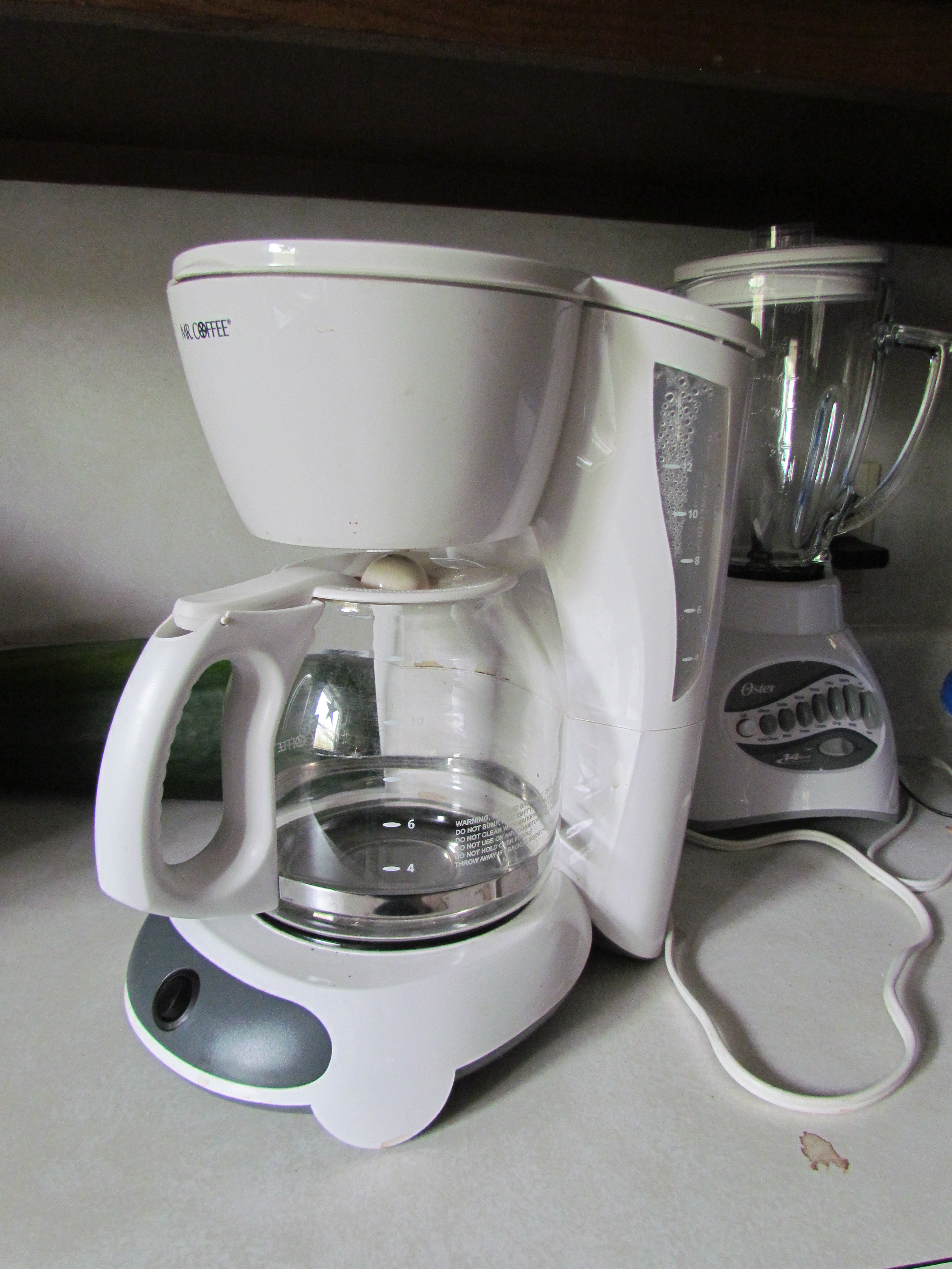 White coffee maker from Mr. Coffee